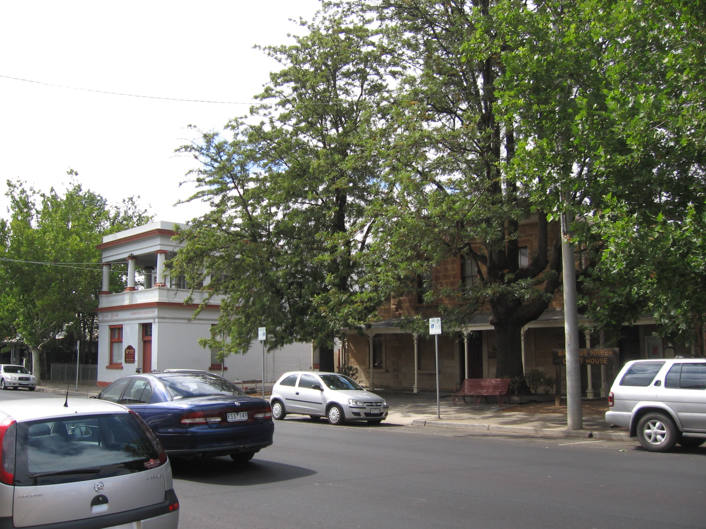 Streetscape, Bacchus Marsh.